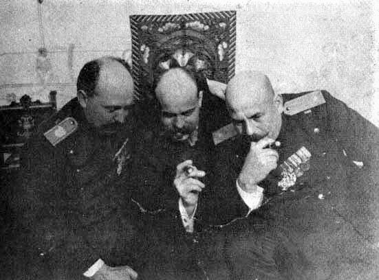 Dragutin Dimitrijević Apis (1876-1917) (right) with comrades